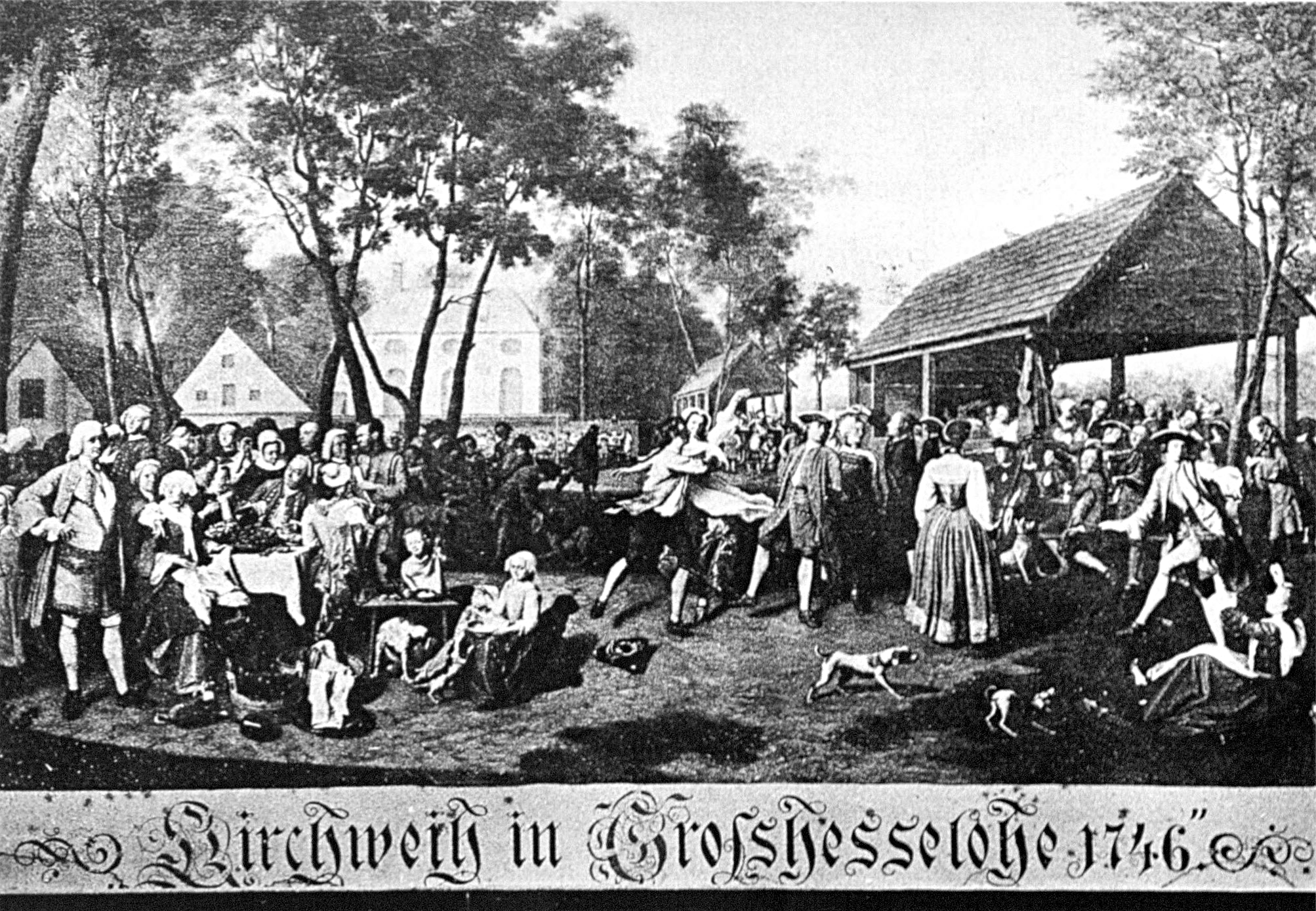 historic etching of Kermesse at Großhesselohe, near Munich, Germany in 1746